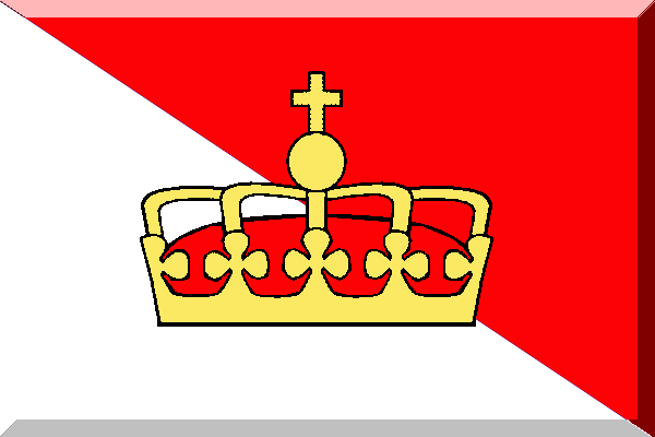 Fantasy flag of French football club AS Monaco, using this crown